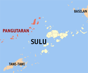 Map of the Sulu showing the location of Pangutaran